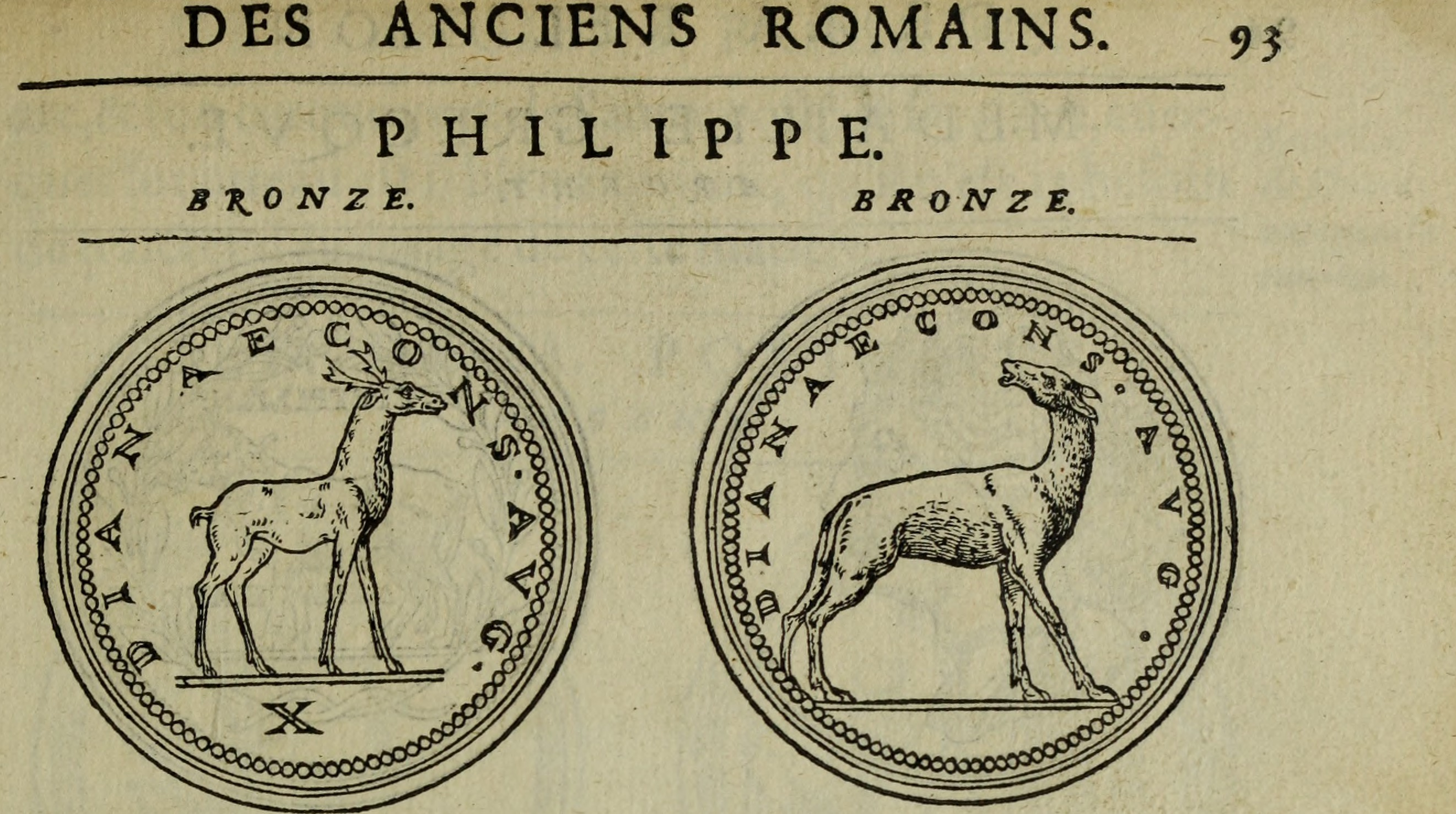 Title: Discours de la religion des anciens Romains : de la castrametation & discipline militaire d'iceux. Des bains & antiques exercitations grecques & romaines ... Year: 1581 (1580s) Authors: Du Choul, Guillaume, 16th cent Du Choul, Guillaume, 16th cent. Discours sur la castrametation et discipline militaire des Romains Eskrich, Pierre, ca. 1530-ca. 1590, engraver Rouillé, Guillaume, 1518?-1589, printer Subjects: Military art and science Baths Baths Publisher: Lyon : G. Roville Text Appearing Before Image: Animmx Diane eftoit appaifée auecques la Biçhe, le Daim, lequi font en çer£ & leTaure,animaux mis en la tutelle delaDeef-Dt*neï C fexomme Ion pourra congnoiftre par la pain&ure queiay fai£t retirer des médailles Grecques & Latines, quiferuiront de tefmoignage de ce que iay efeript cy def-fus. PHILIP Text Appearing After Image: Strabo, au liure quatorzième de la defeription du Temple demonde, recite, que en Tifle dIcarie eftoit le temple de ^^r°0(Diane, nommé TWgfcwx*. Et Tite Liue , au quatrièmeliure de la cinquième décade, nomme ledift templeTauropolum: & les facrifices qui fe faifoyent à Diane,Tauropolia. Toutesfois Diony fius en fon liure, DeJttu or- D*™*huy dit, que Diane na pas efté nommée Tauropola du %HJ^peuple, mais pour le taureau,eftantla région abondan- Taurope-te de ces taureaux,à laquelle prefidoit la Deefle, & delà lafurnomméc Taurique : choie qui eft véritable, ayant DUnefouucntesfois regardé la médaille Grecque , laquelle TétHrWfay fai£t reprefenter cy deflbubs : où nous lifons lettresGrecques qui difent, e p etpixon & a m a 21 a z. m 3